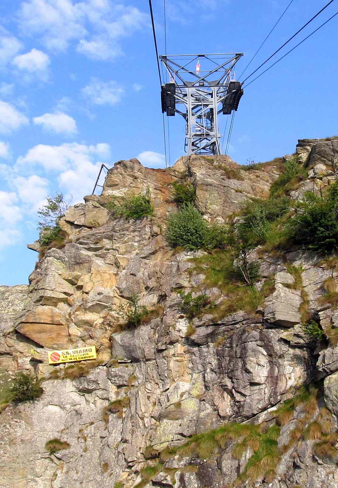 Oropa-lago del Mucrone cableway (BI, Italy)